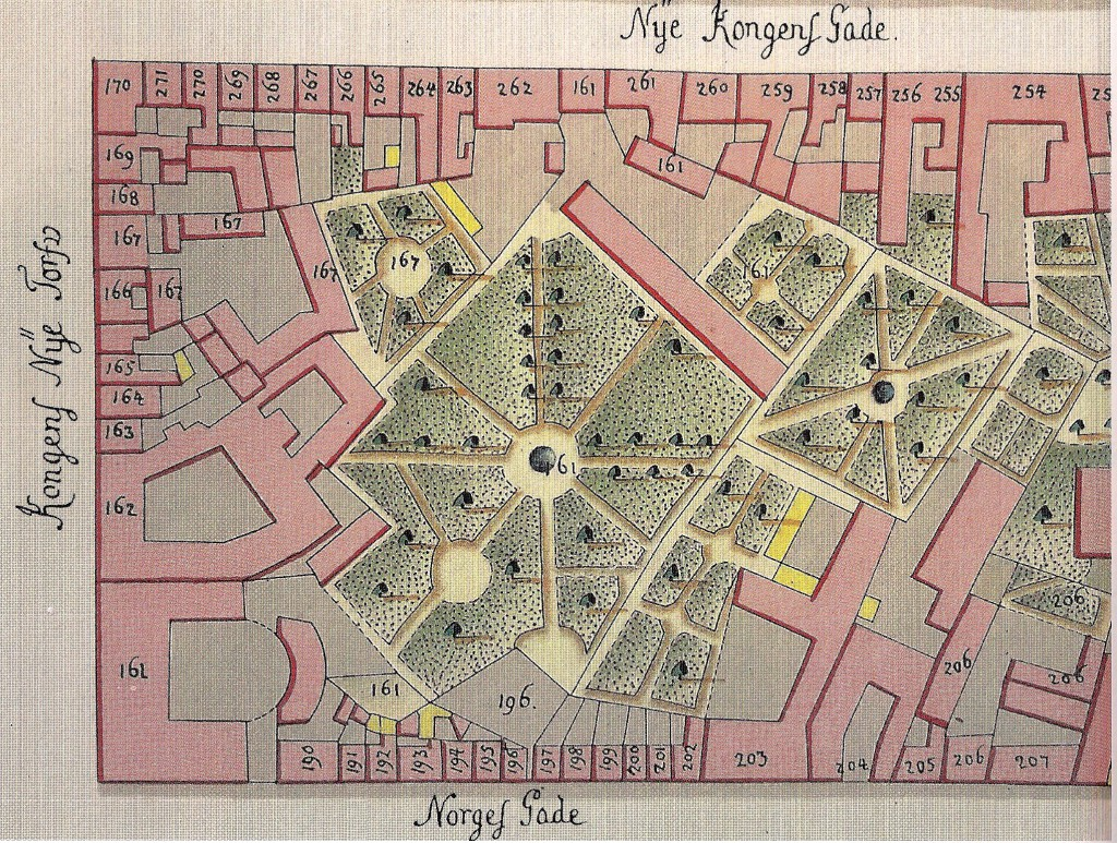 The garden of the building now known as the Thott Mansion at Kongens Nytorv in Copenhagen, Denmark